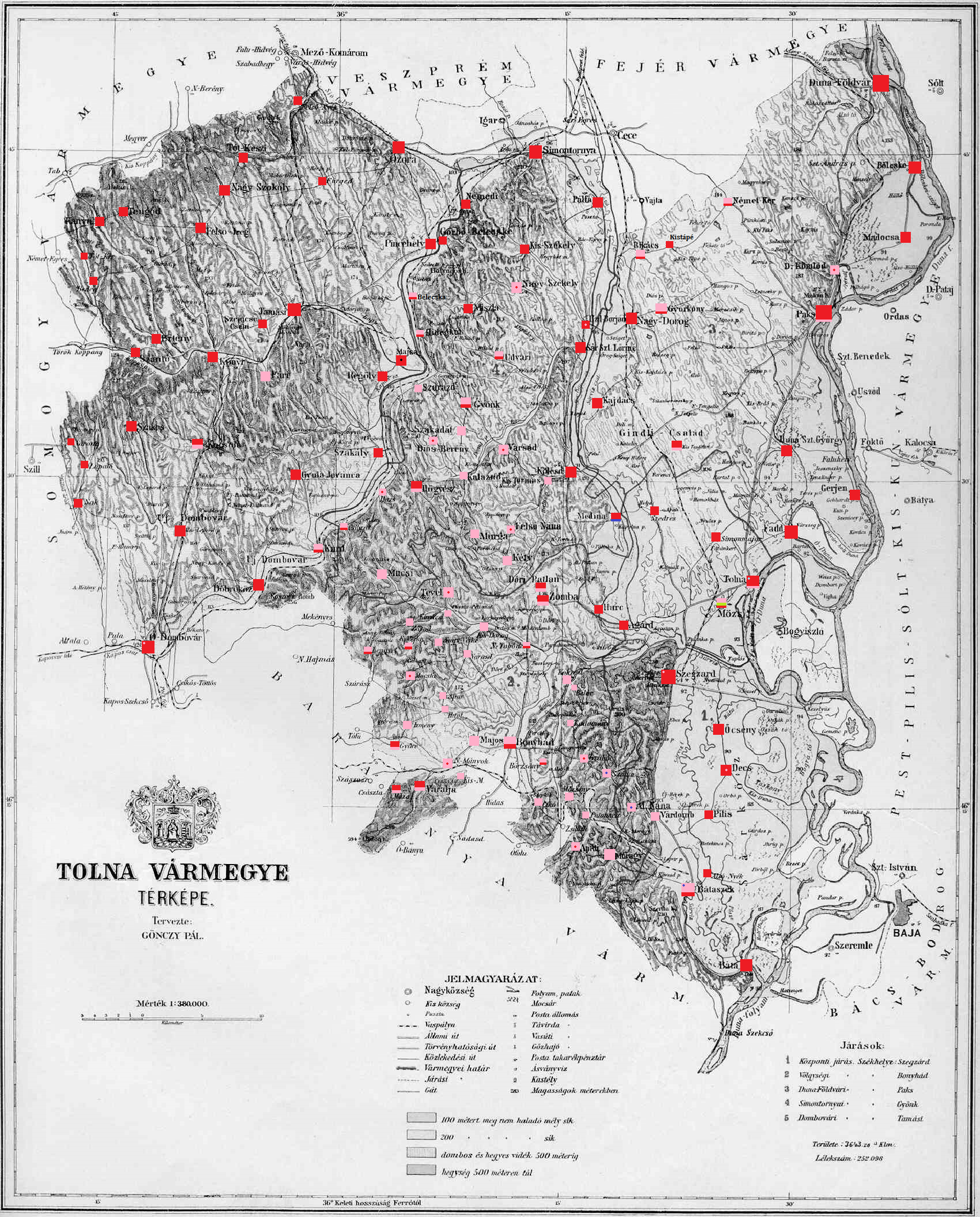 Ethnic map of the county (with data of the 1910 census). Key: red - Hungarians; pink - Germans; light green - Slovaks; dark blue - Serbs; black - Roma. Coloured dots in plain rectangles imply the presence of smaller minority populations (generally more than 100 people or 10%). Multicoloured rectangles imply cities and villages with multi-ethnic populations with the order of the stripes following the ethnic composition of the settlement.